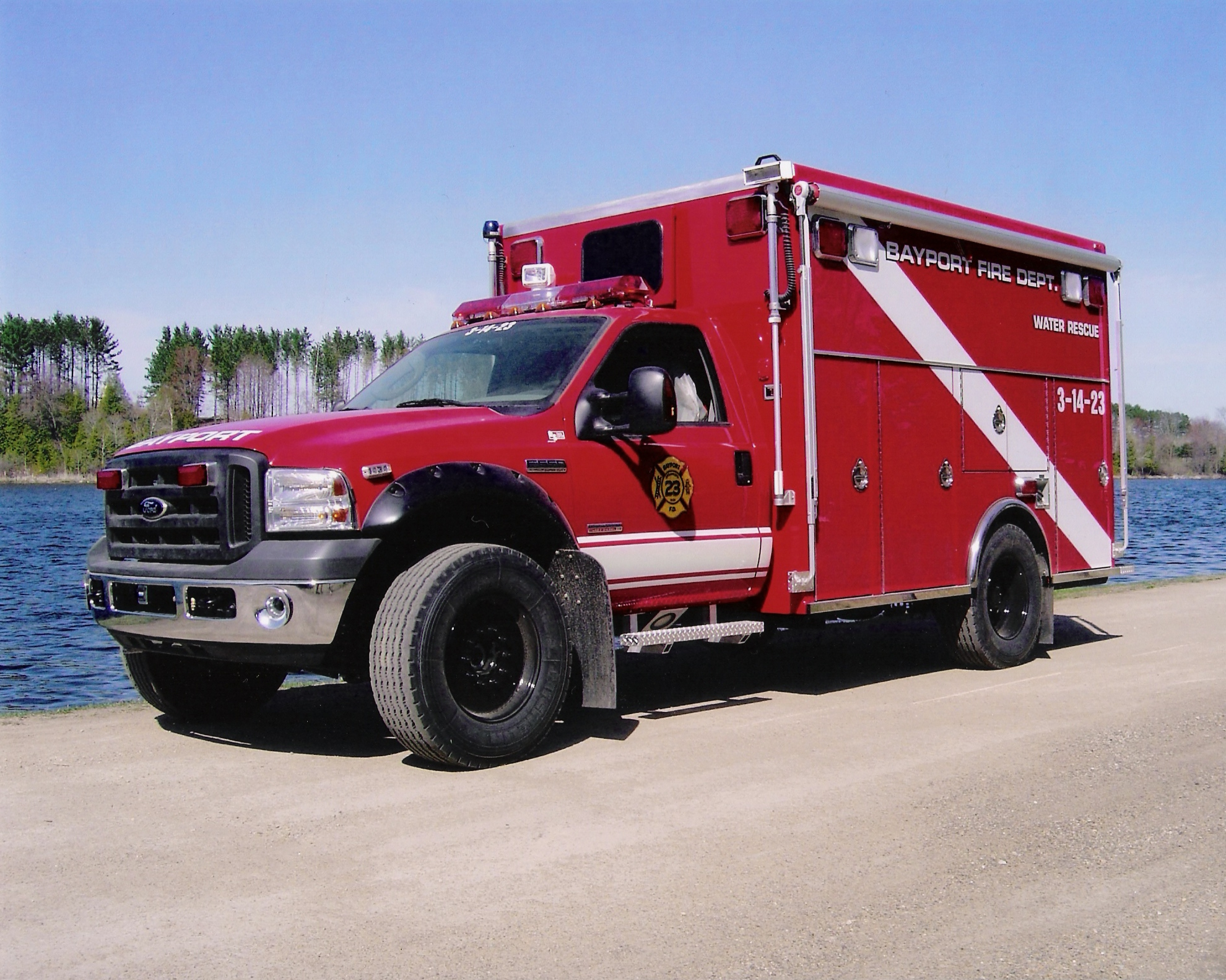 Bayport Fire Department 2006 Water Rescue Vehicle. Built by Marion Body works. Ford F550, single axel wheel conversion.